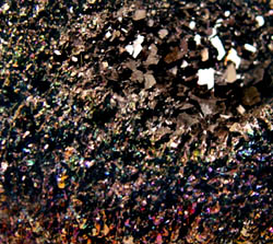 Synthetic silicon carbide crystal aggregate. Iridescent twinned crystals in foreground, untwinned tabular crystals in background. Photo taken by Gregory Phillips in January 2004 and released under terms of the GNU FDL.